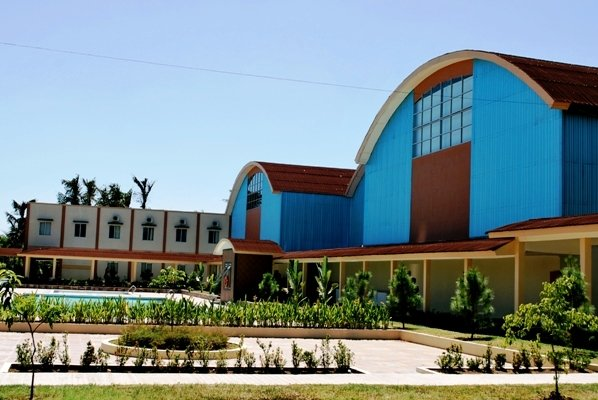 This photo shows a preview of Manado International School's new gymnasium and student residence hall.